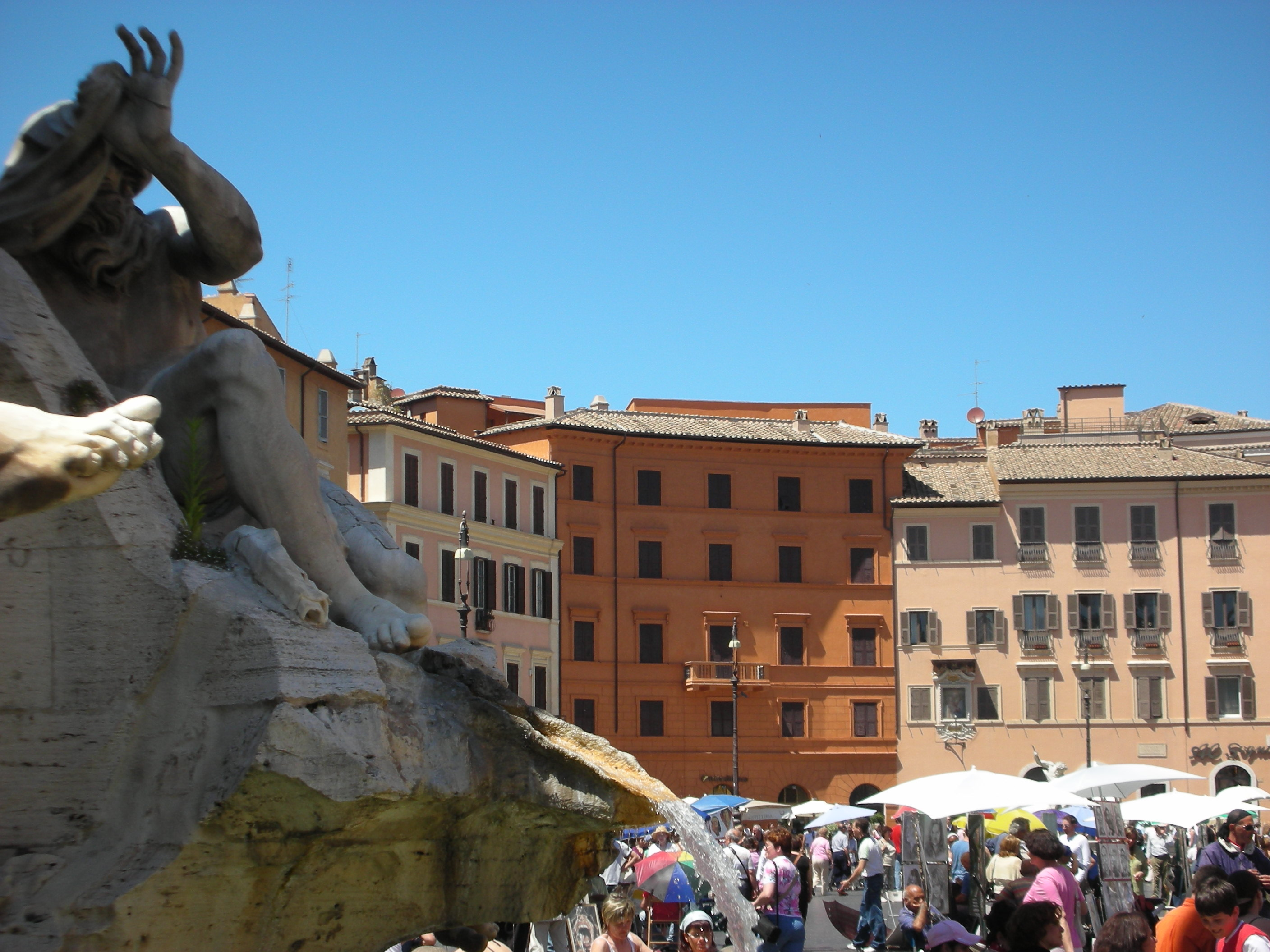 Piazza Navona